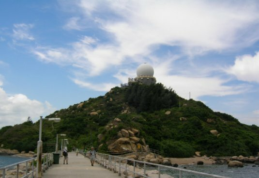 Tai Sha Chau, the largest islet of Sha Chau